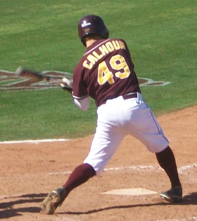 3/22/2009 - The Sun Devils defeated the UA Wildcats 23-9.